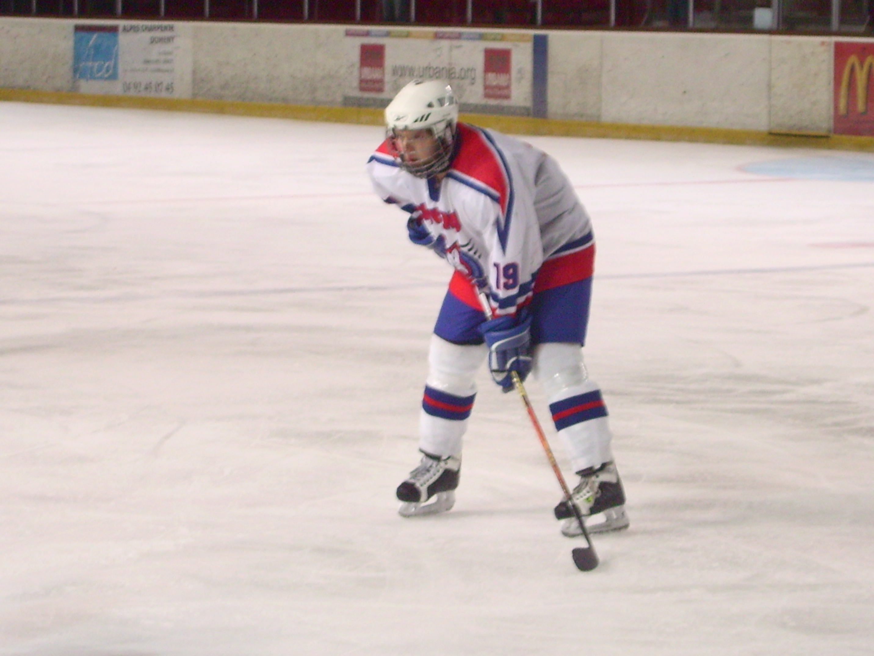 Dejan Pungaršek, slovenian ice hockey player. Slovenia U18, 2009. Friendly vs France.